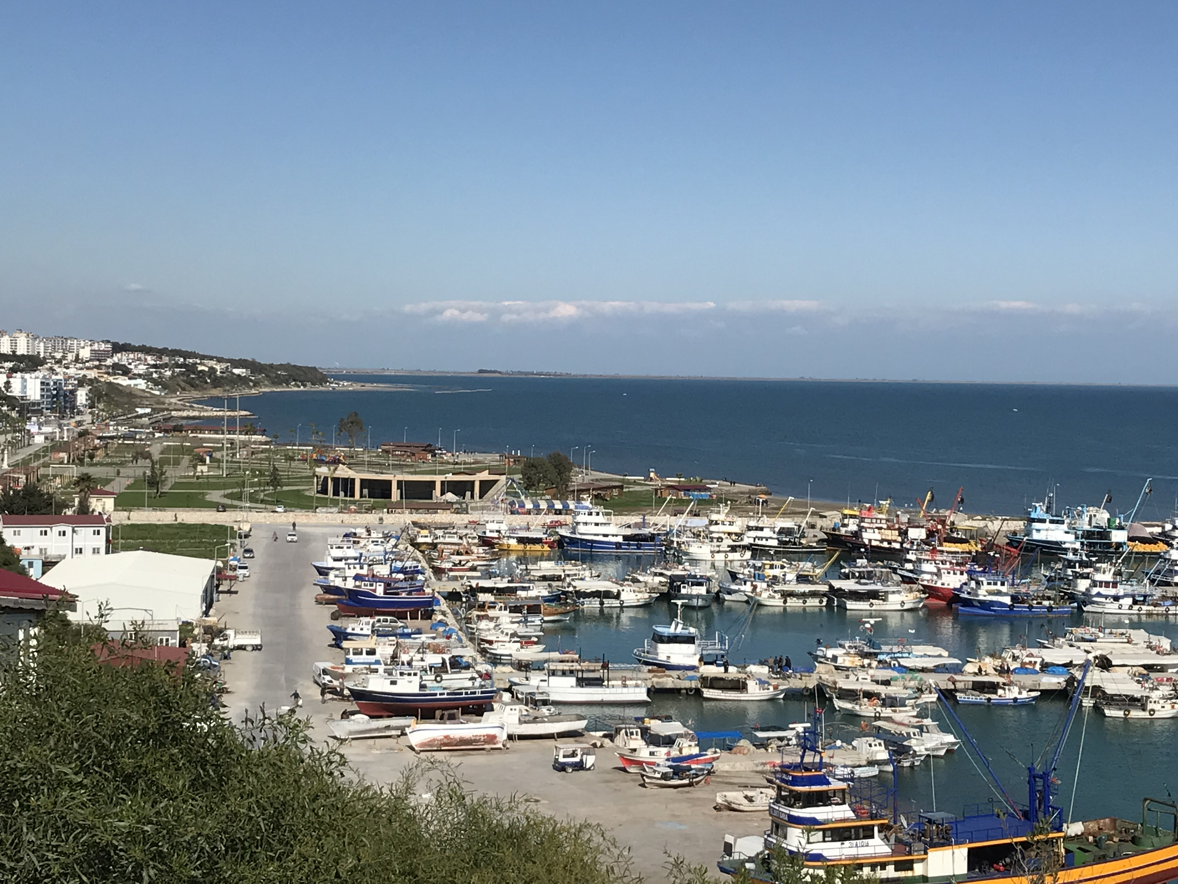 A view of Karataş, Adana - Turkey